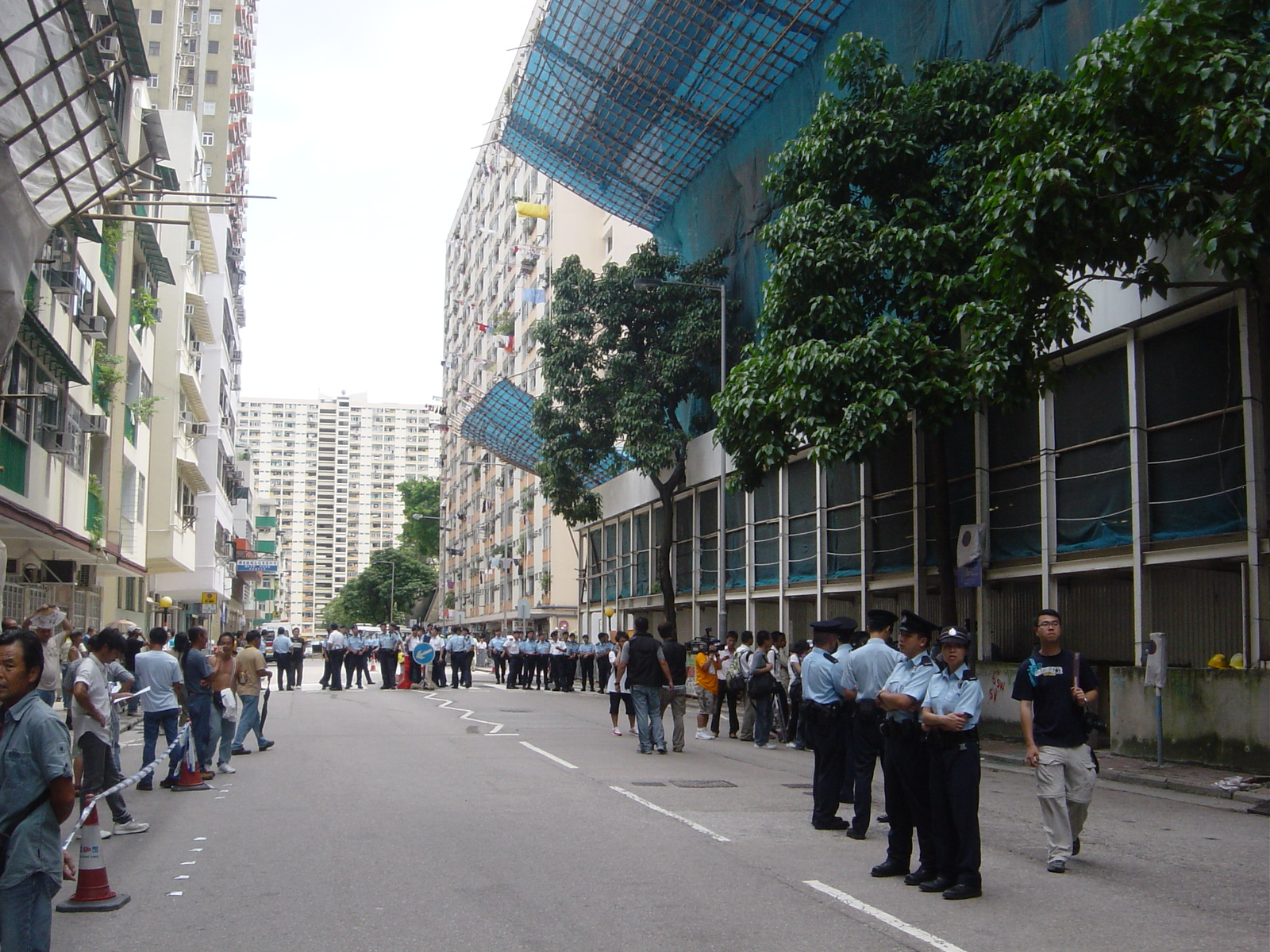 Metal workers' protest in Hong Kong.